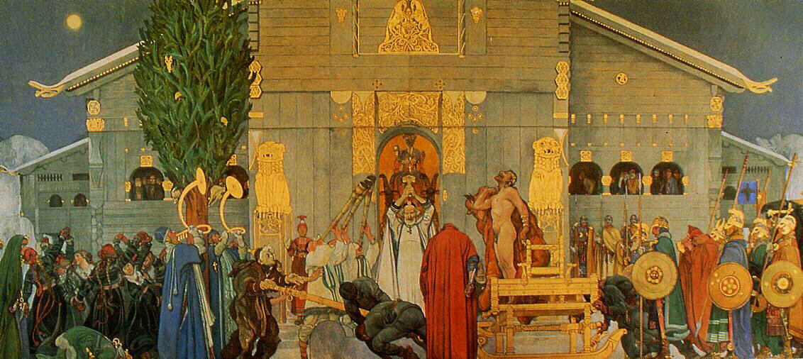 painting